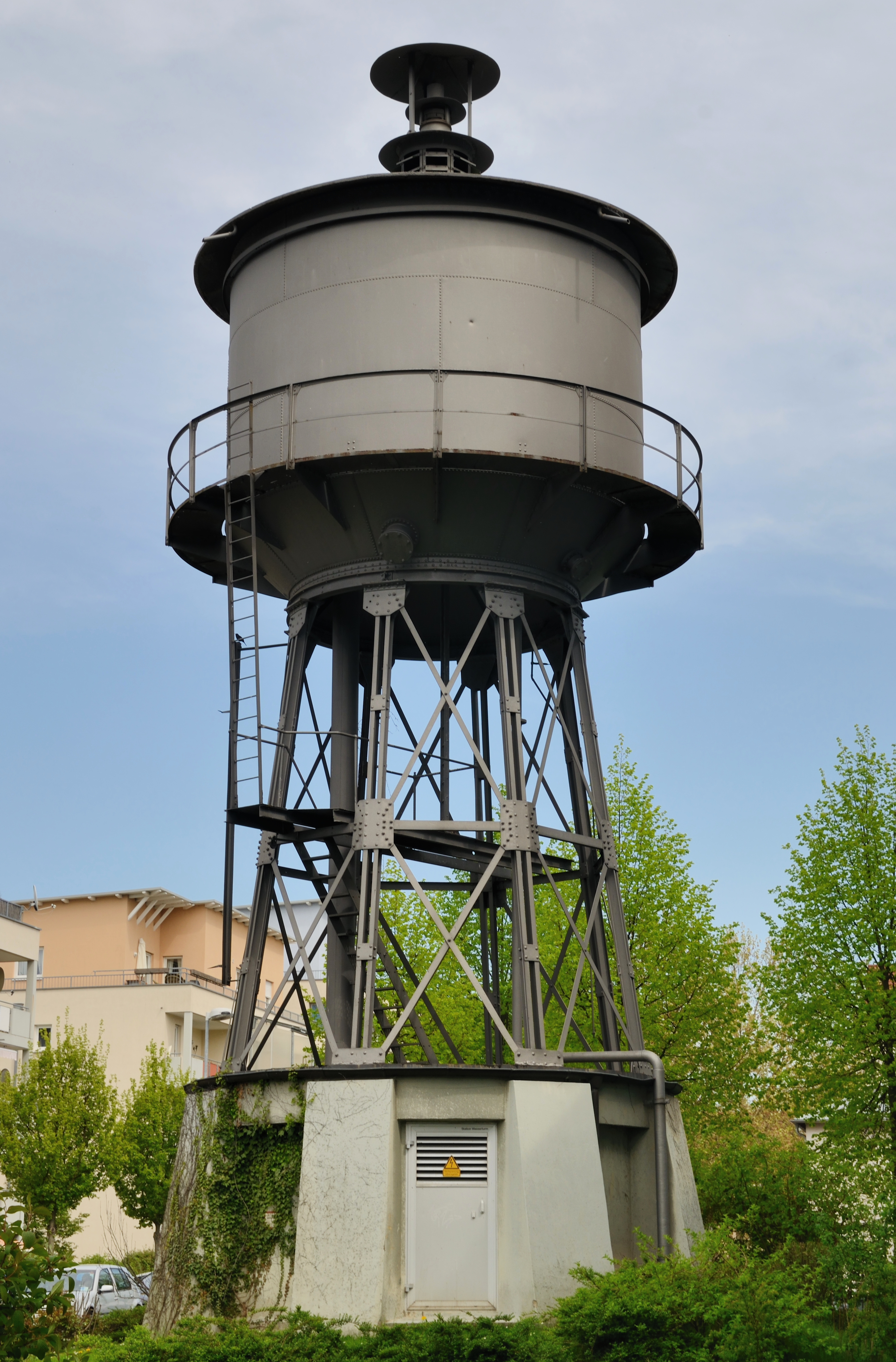 Weil am Rhein: Water tower Friedlingen